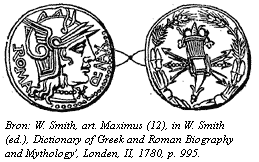 Coin by Fabius Maximus. From: W. Smith, art. Maximus (12), in W. Smith (ed.), Dictionary of Greek and Roman Biography and Mythology, Londen, II, 1873, p. 131.